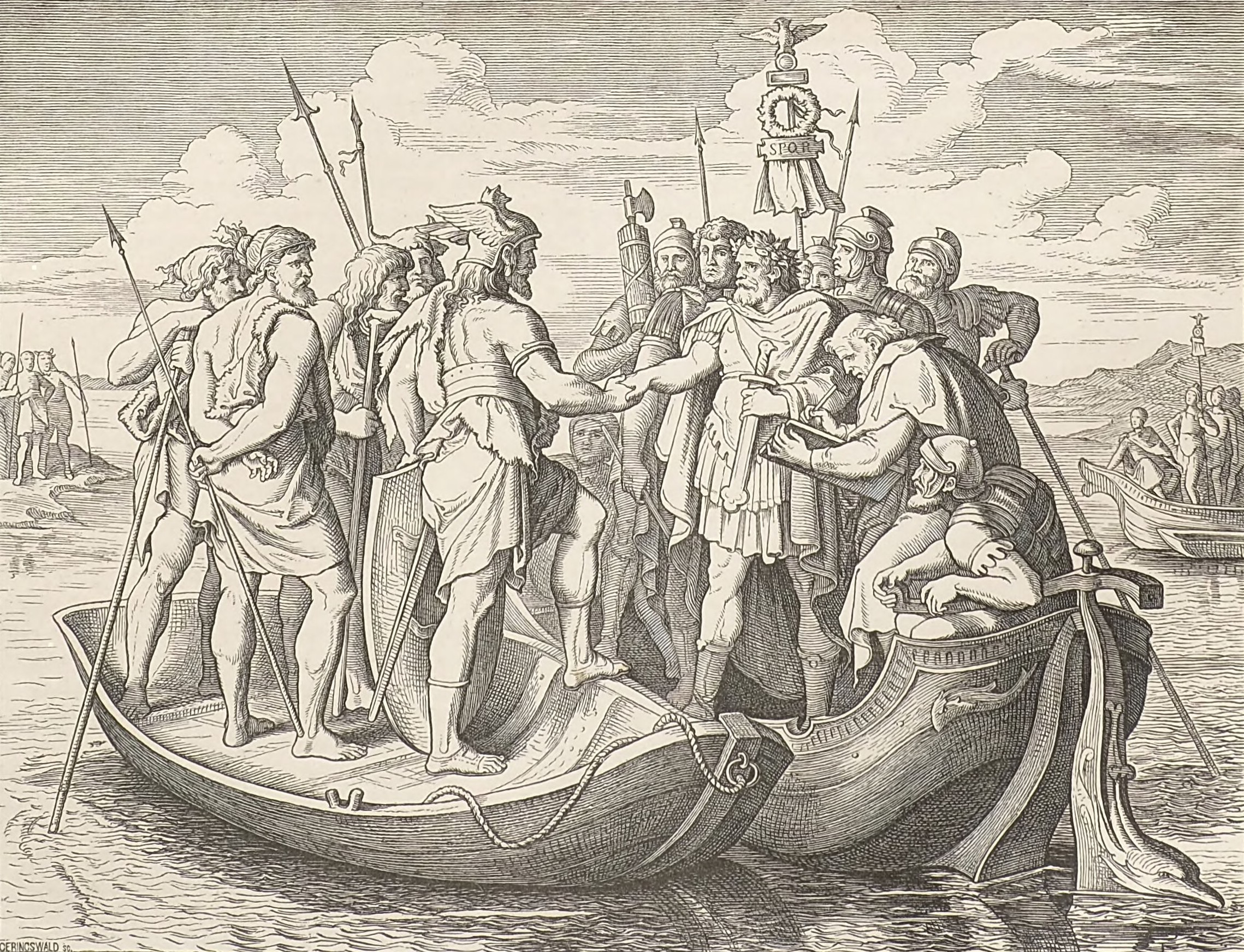 “Athanaric and Valens on the Danbue”. (Peace agreement between Athanaric and Emperor Valens 369. Woodcut, after a drawing.